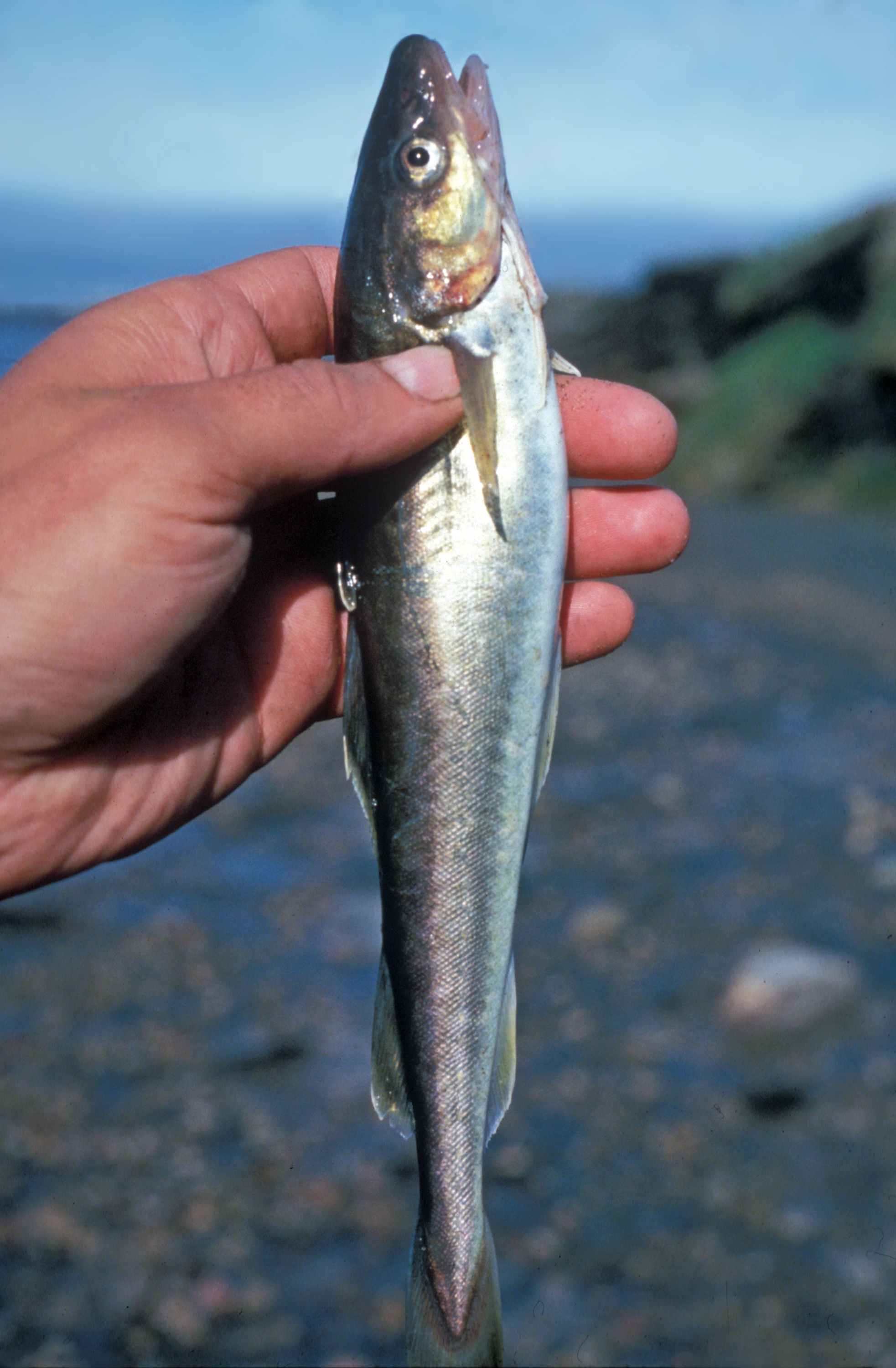 Saffron cod (Eleginus gracilis)